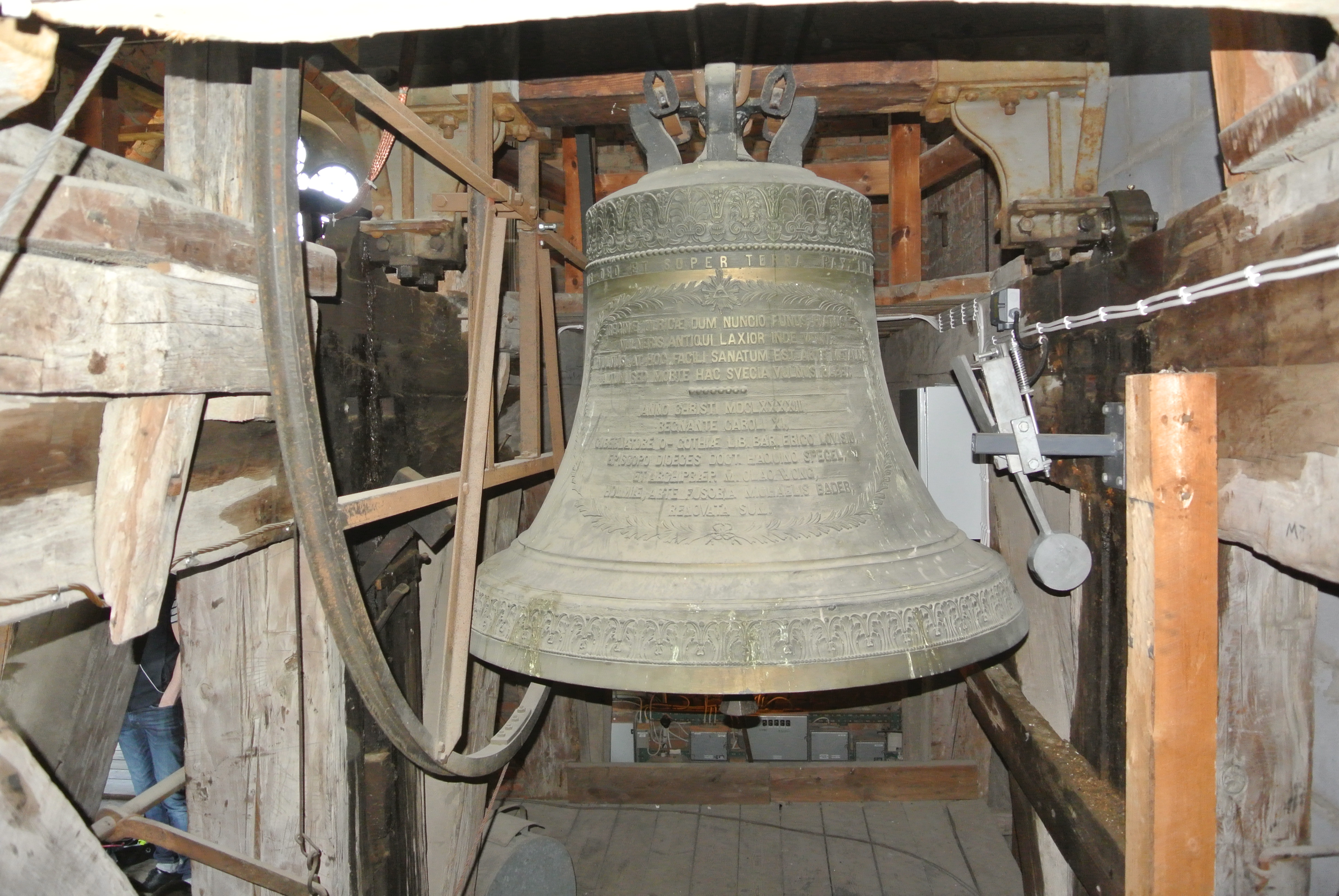 Böneklockan i Linköpings domkyrka.